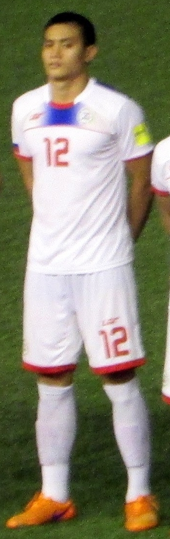 Amani Aguinaldo with the Philippine national team. Philippines v. Maldives friendly. September 3, 2015.